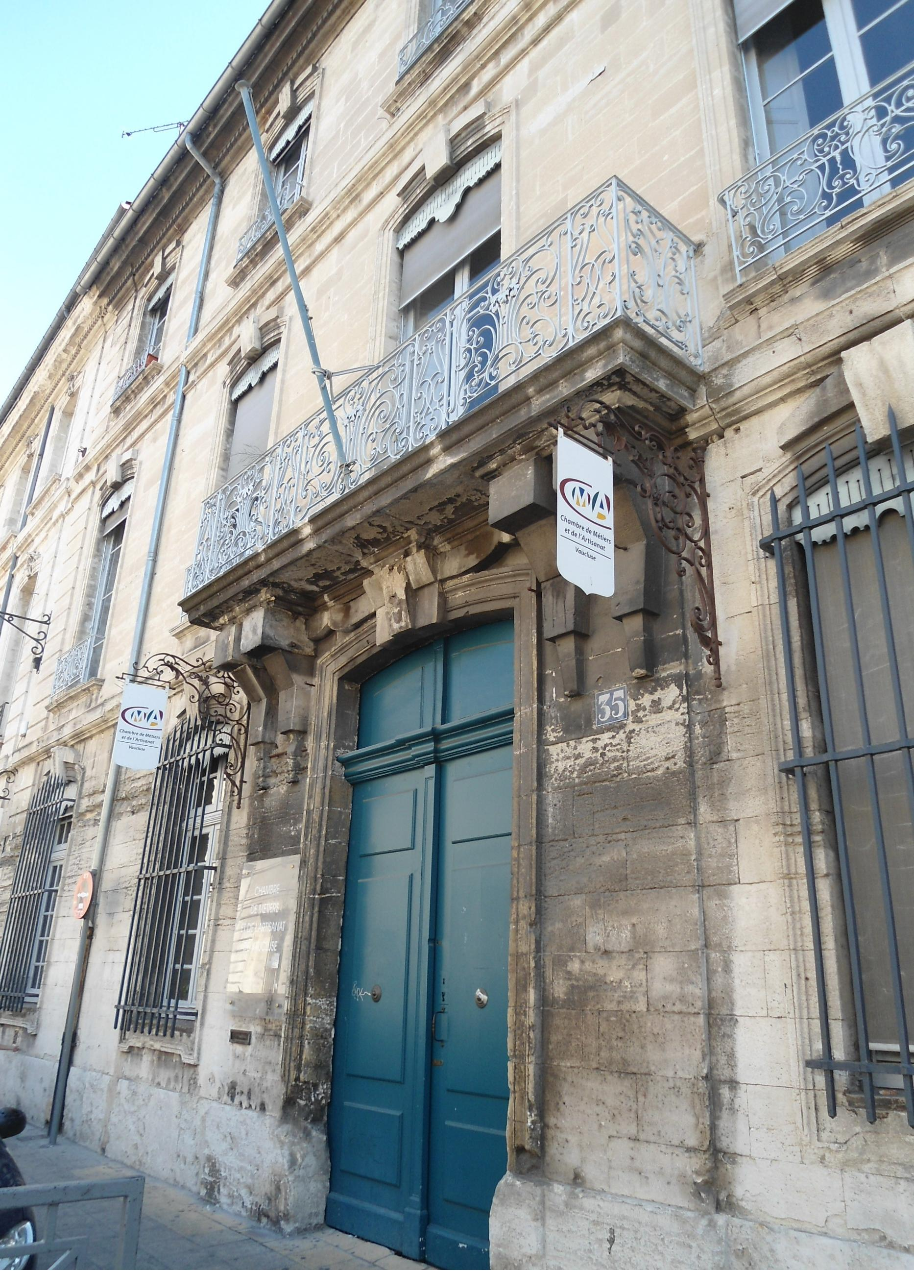 Chamber of Trades and Craft, Vaucluse.(front from its left side) .